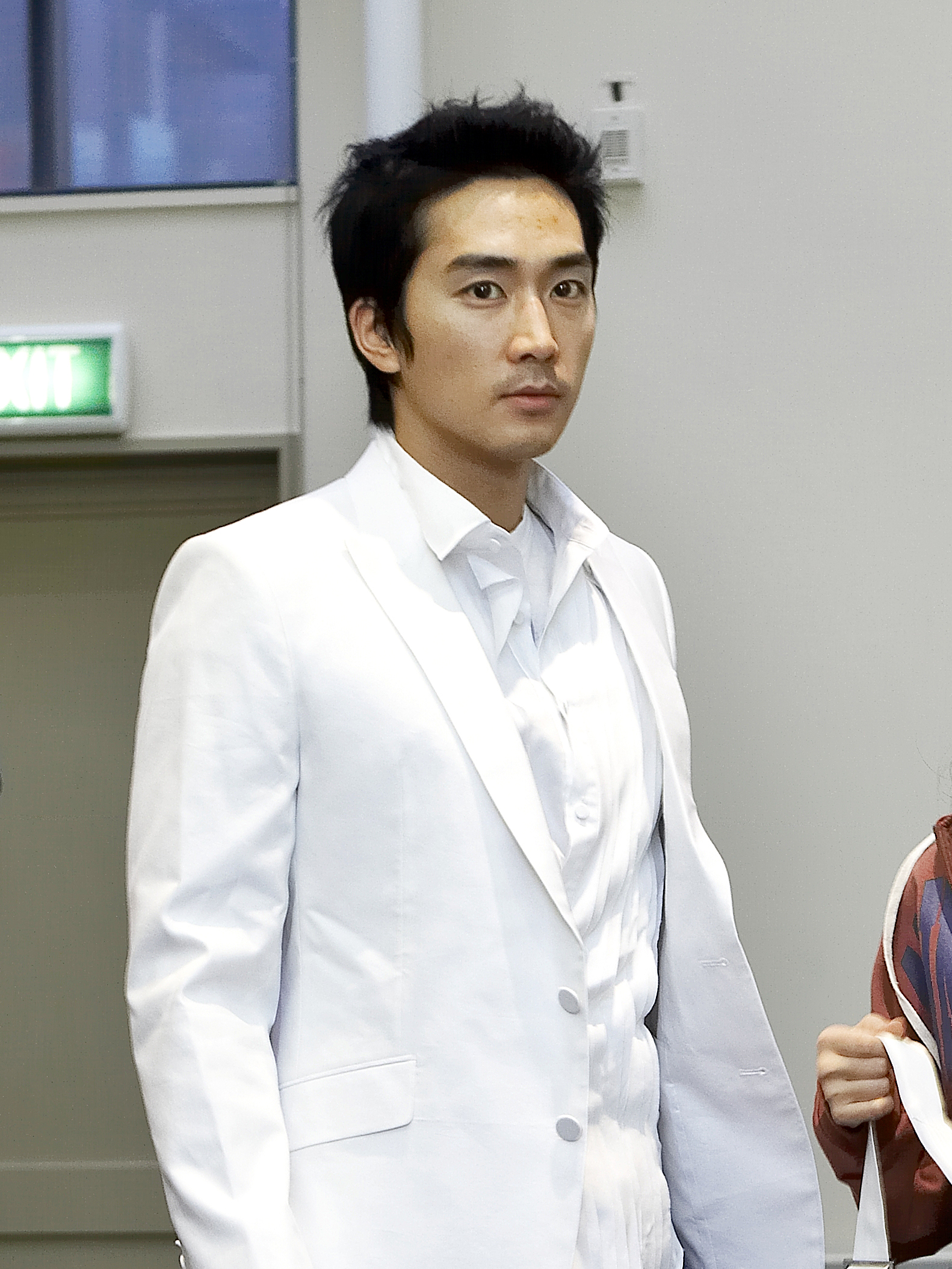 Cropped version of 휘센CF 촬영현장(송승헌)10